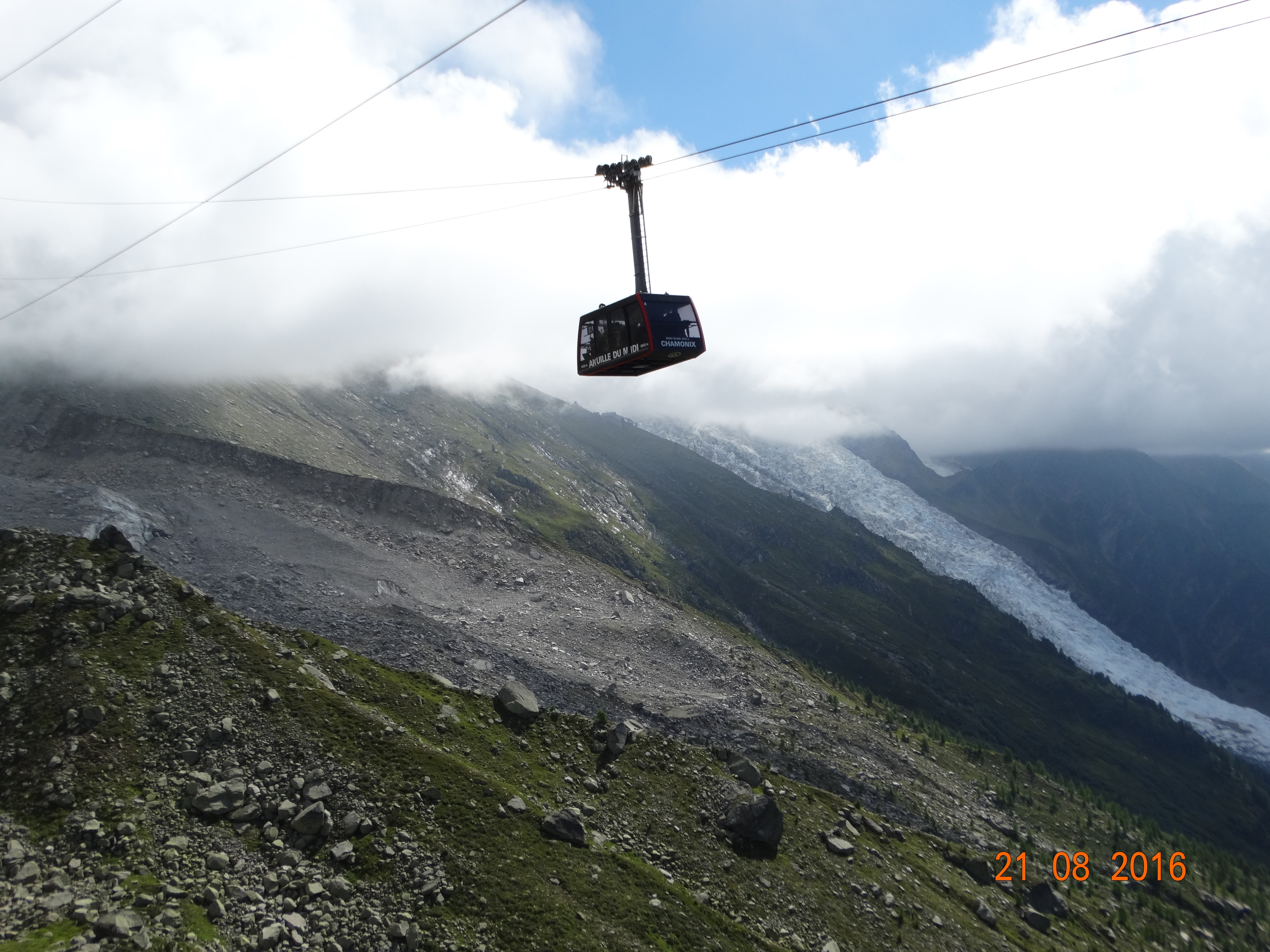 Cable car (Aiguille du Midi)